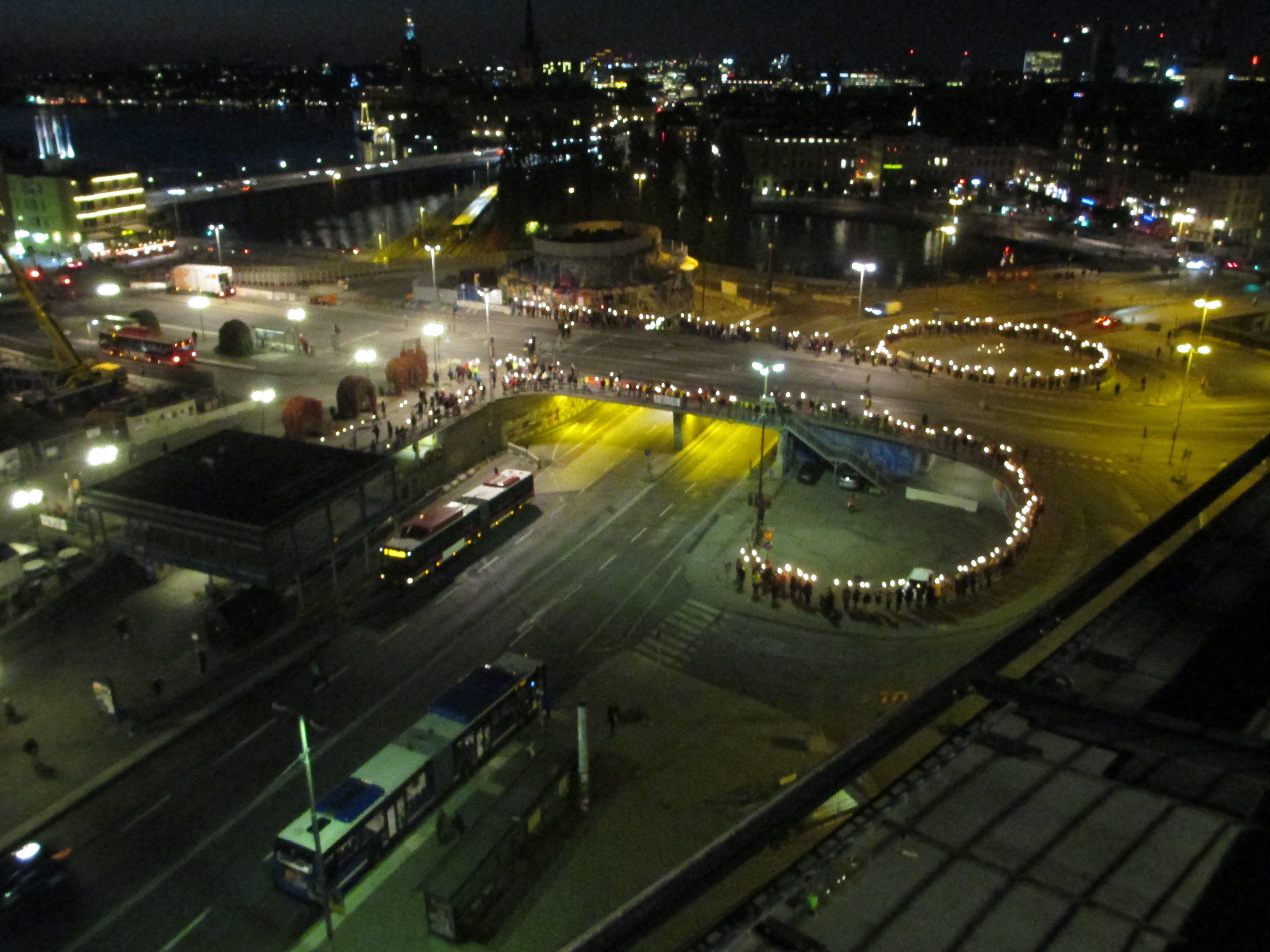 Demonstration against destruction of historic building & traffic interchangePlace: Slussen, Stockholm, Sweden